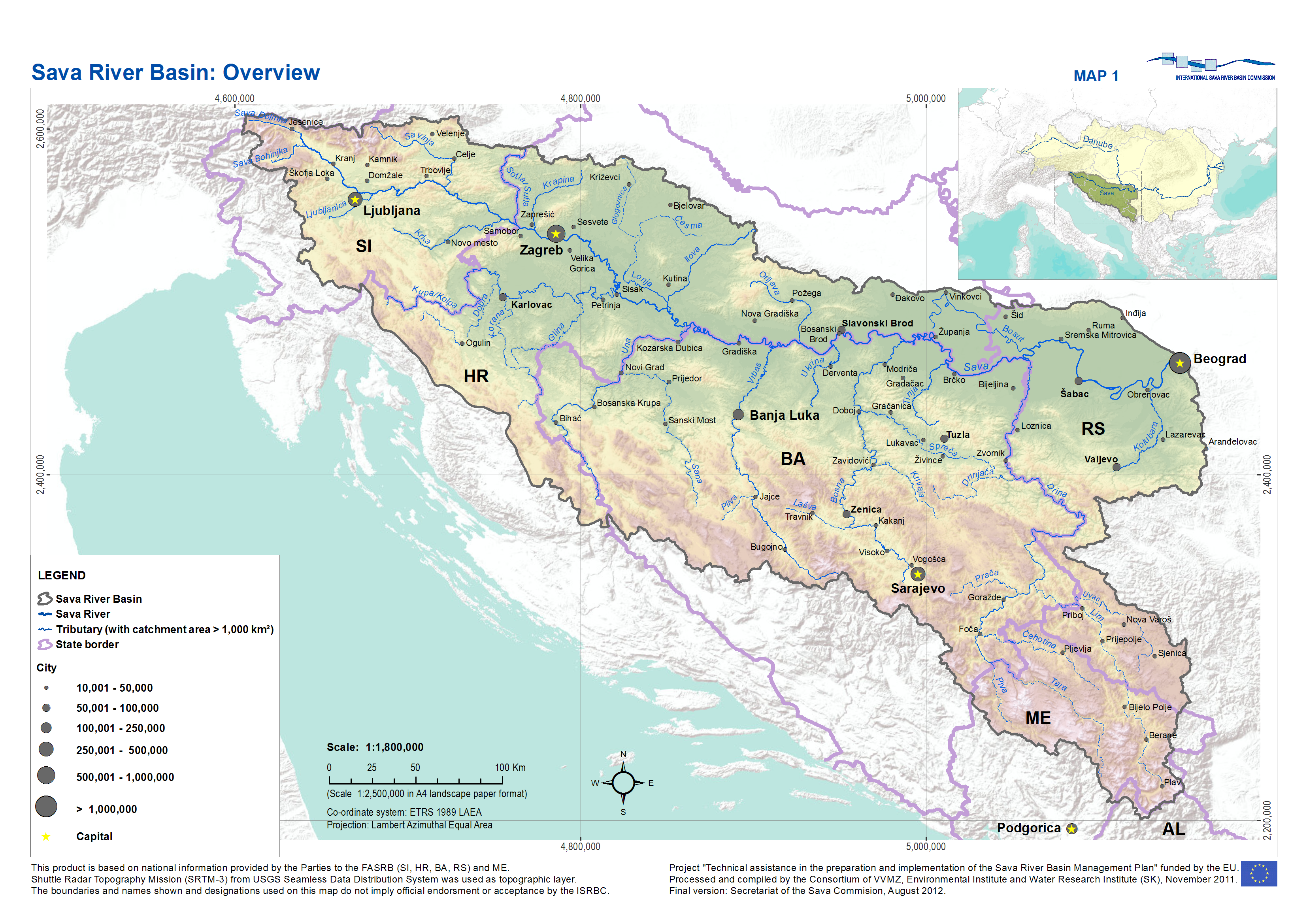 Sava River Basin overview